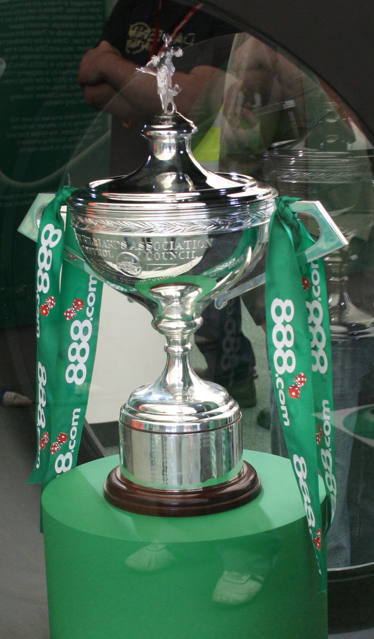 The World Snooker Championship Trophy on display at "The Cue Zone" outside the Crucible Theatre in Sheffield 2007